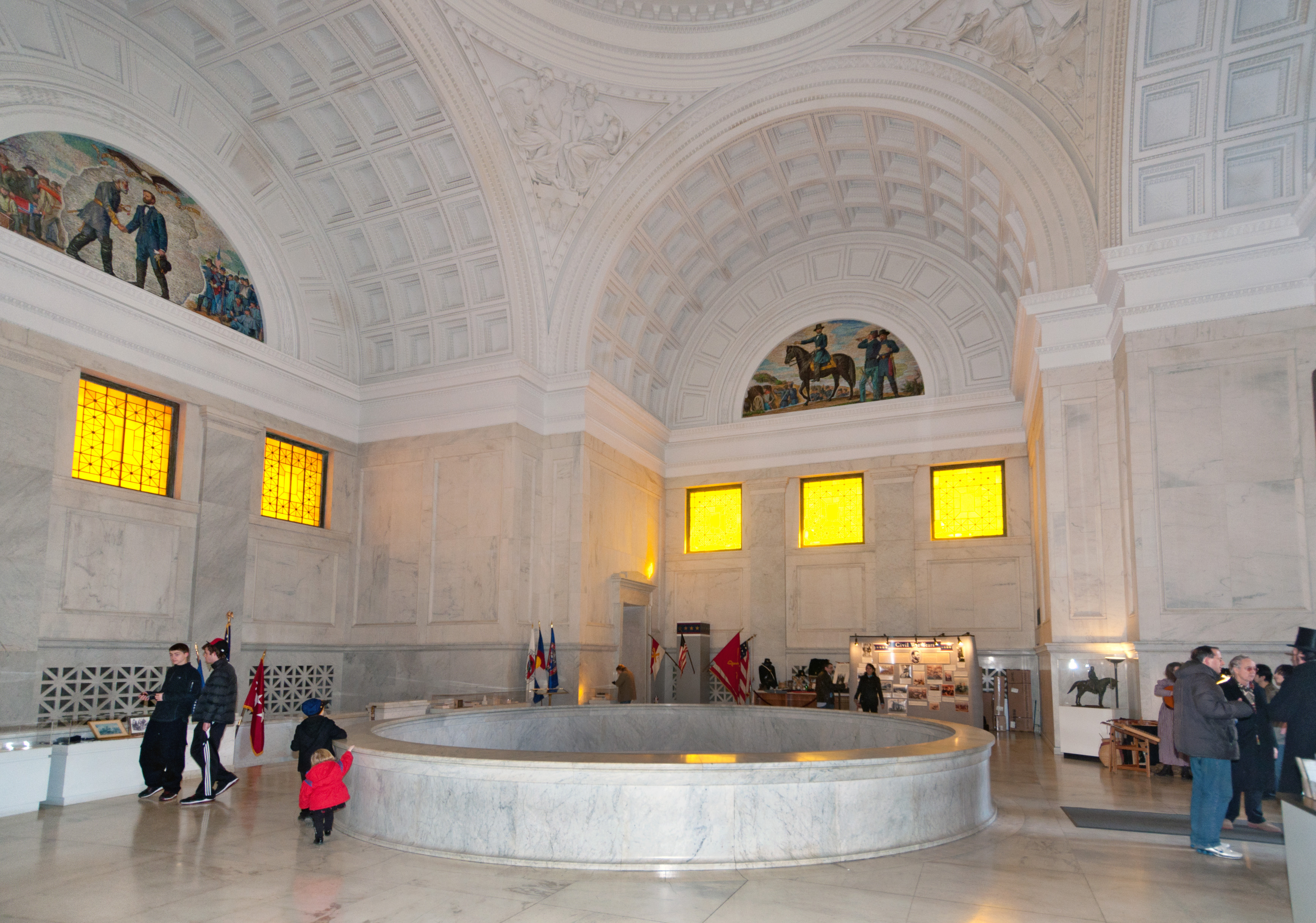 Who is buried in Grant's Tomb? Technically, nobody, but General Grant and his wife Julia are entombed there.